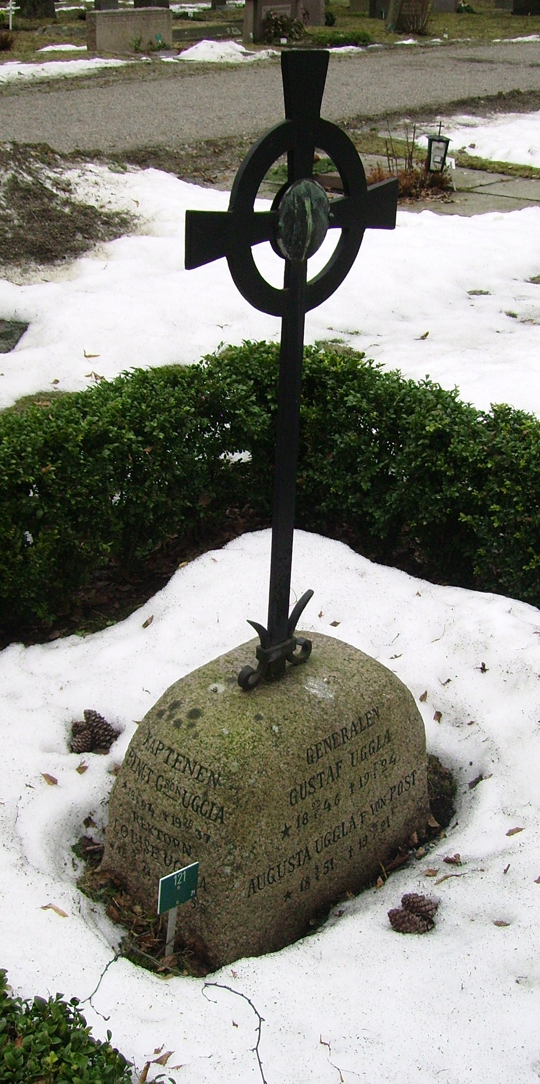 Picture of Bengt Uggla's grave at Solna cemetery in Solna.